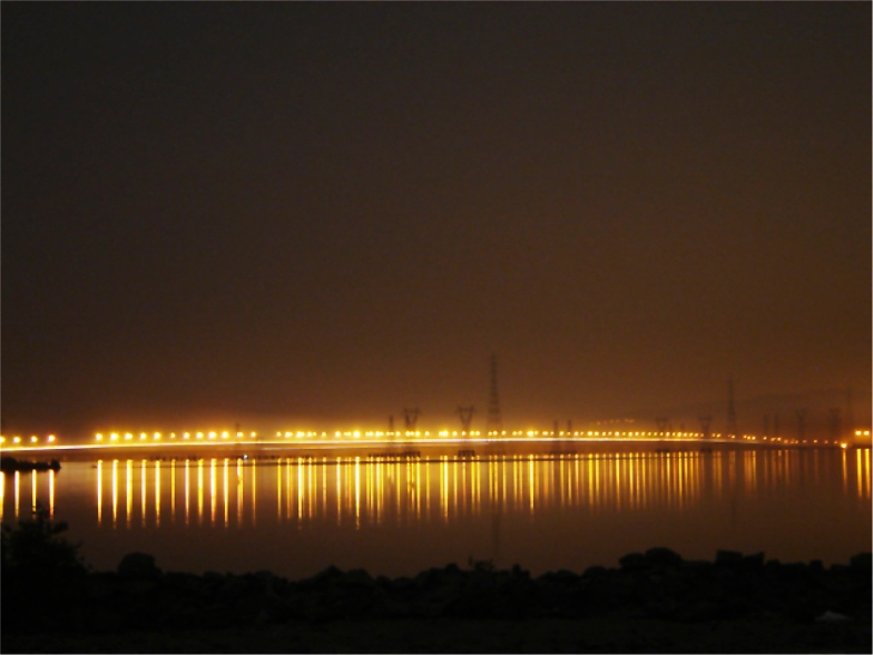 Vashi Bridge Connecting Vashi to Mankhurd.